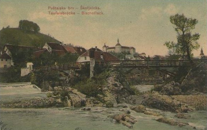 Skofja Loka. General view of the town and castle from the river, circa 1910. Loka Castle was built after an earthquake destroyed the old castle in 1511.